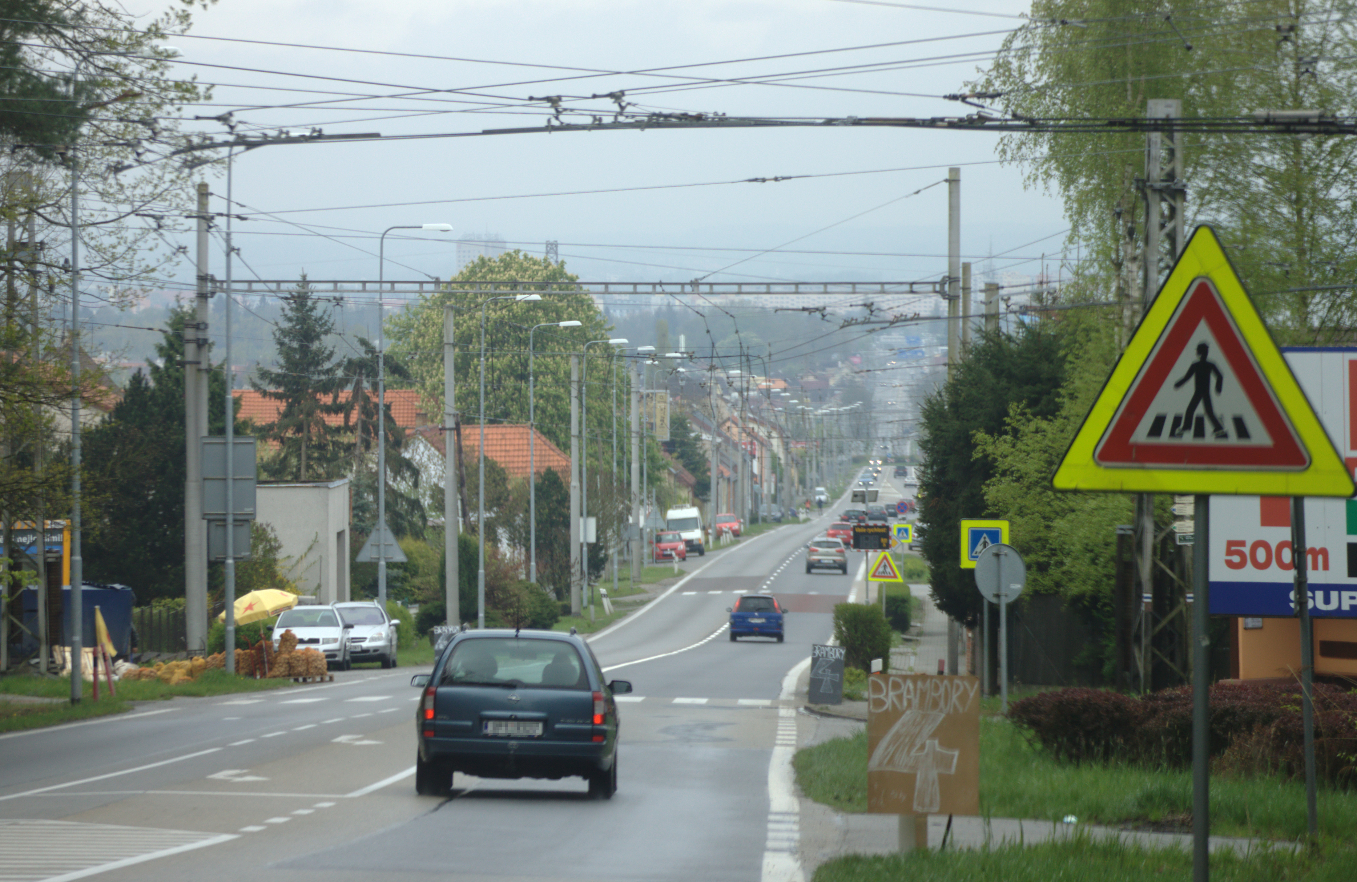 Main street in the town of Borek near České Budějovice (Pražská), South Bohemian Region, CZ